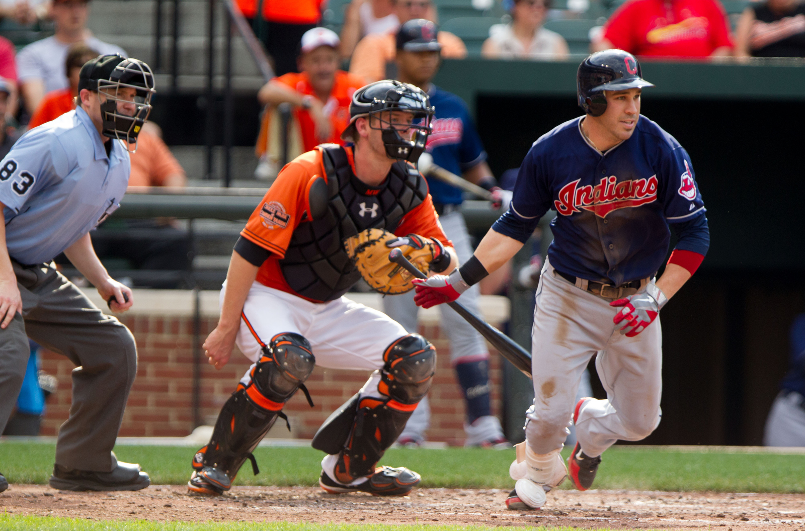 Jason Kipnis, the 2nd baseman for the Cleveland Indians.